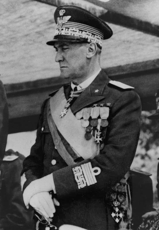 Rodolfo Graziani, bearer of the title "Marshal of Italy" and commander of the Italian troops in North Africa. Documentary photo in uniform.